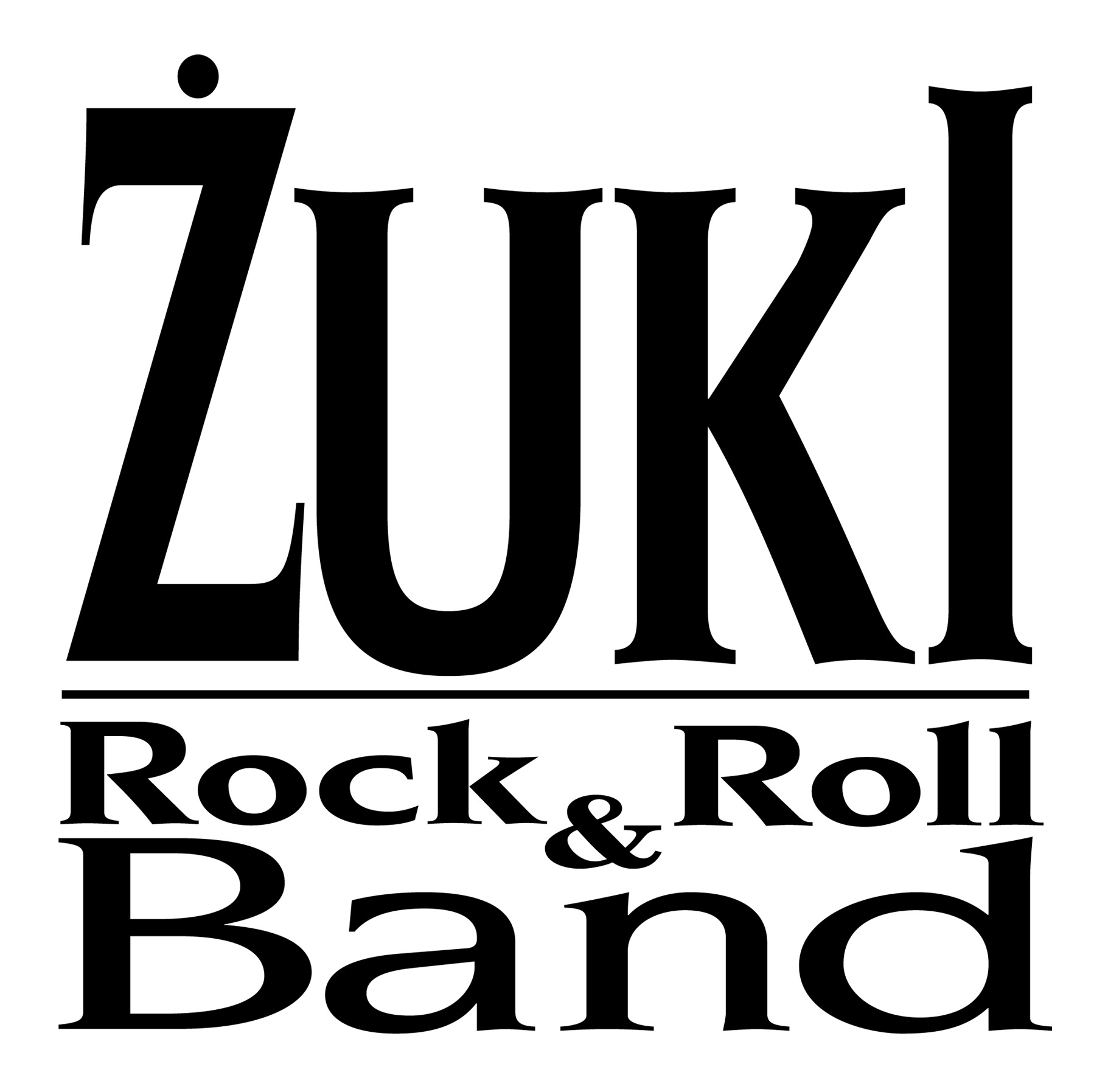 Band's sign